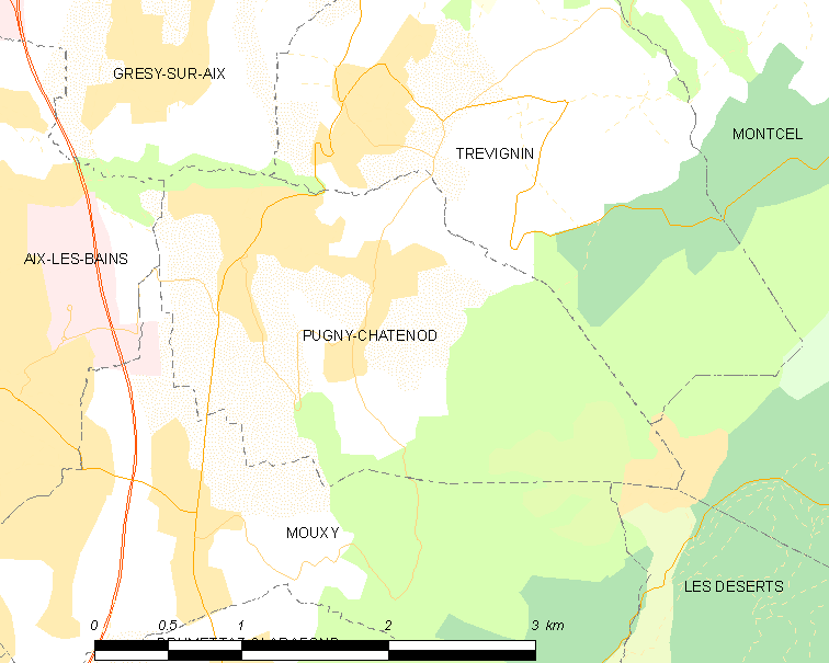 Map of French municipality